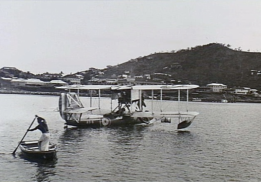 Port Moresby, New Guinea. c. 1930. A view of a RAAF Supermarine Seagull III aircraft (No. A9-6) moored in harbour. Note native in small boat and crew member servicing aircraft. (Original negative housed in AWM Nitrate Store)